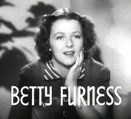 Cropped screenshot of Betty Furness from the trailer for the film Mama Steps Out.